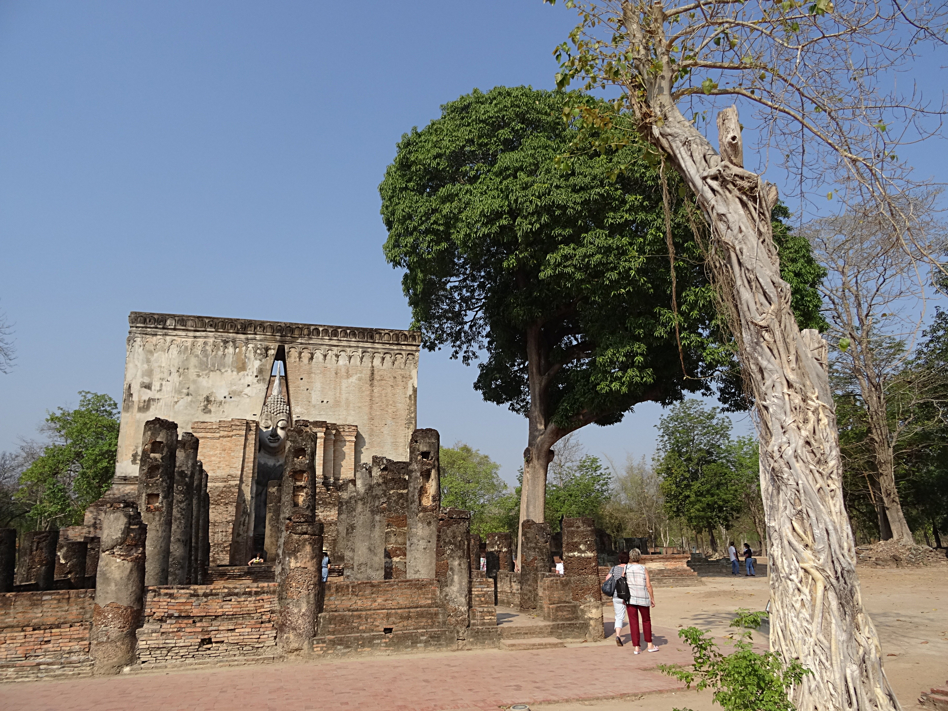 Wat Si Chum temple with ancient mango tree in Sukhothai historical park